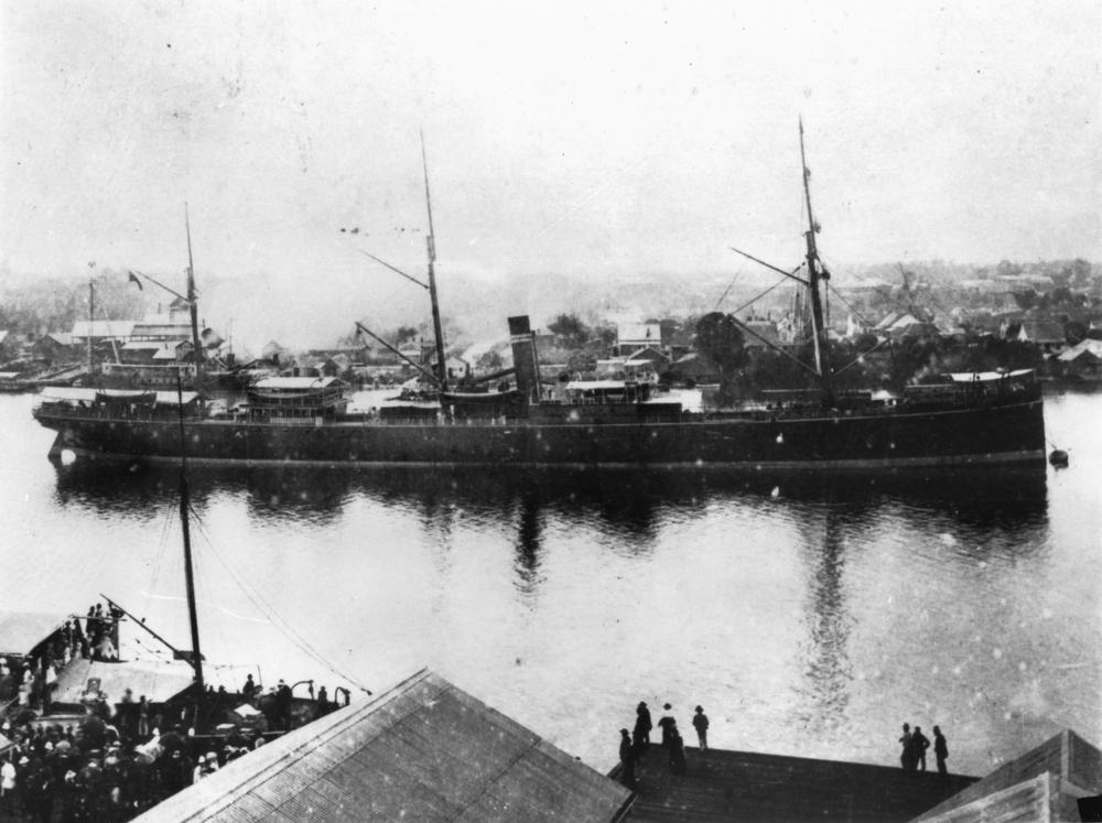 British-India SN Co 3,481 GRT steamship RMS Quetta. Built by Denny Bros. of Dumbarton in 1881, the Quetta left Brisbane on 18 February, 1890, bound for London via the Torres Strait. She was wrecked near Thursday Island on 28 February, 1890, and of 291 people aboard, 133 were drowned. (From description supplied with photograph.)